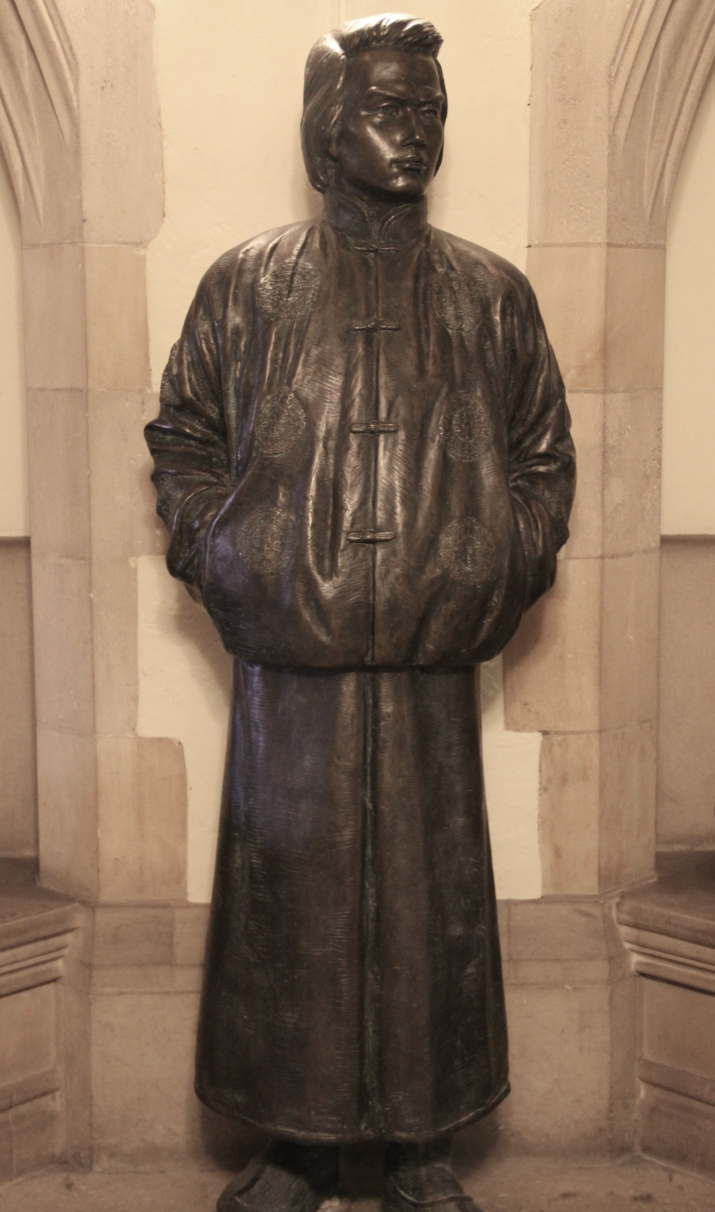 Yung Wing Statue in Sterling Memorial Library, Yale University, New Haven, CT, commissioned for the 150th anniversary of his graduation from Yale by the municipal government of Zhuhai, China